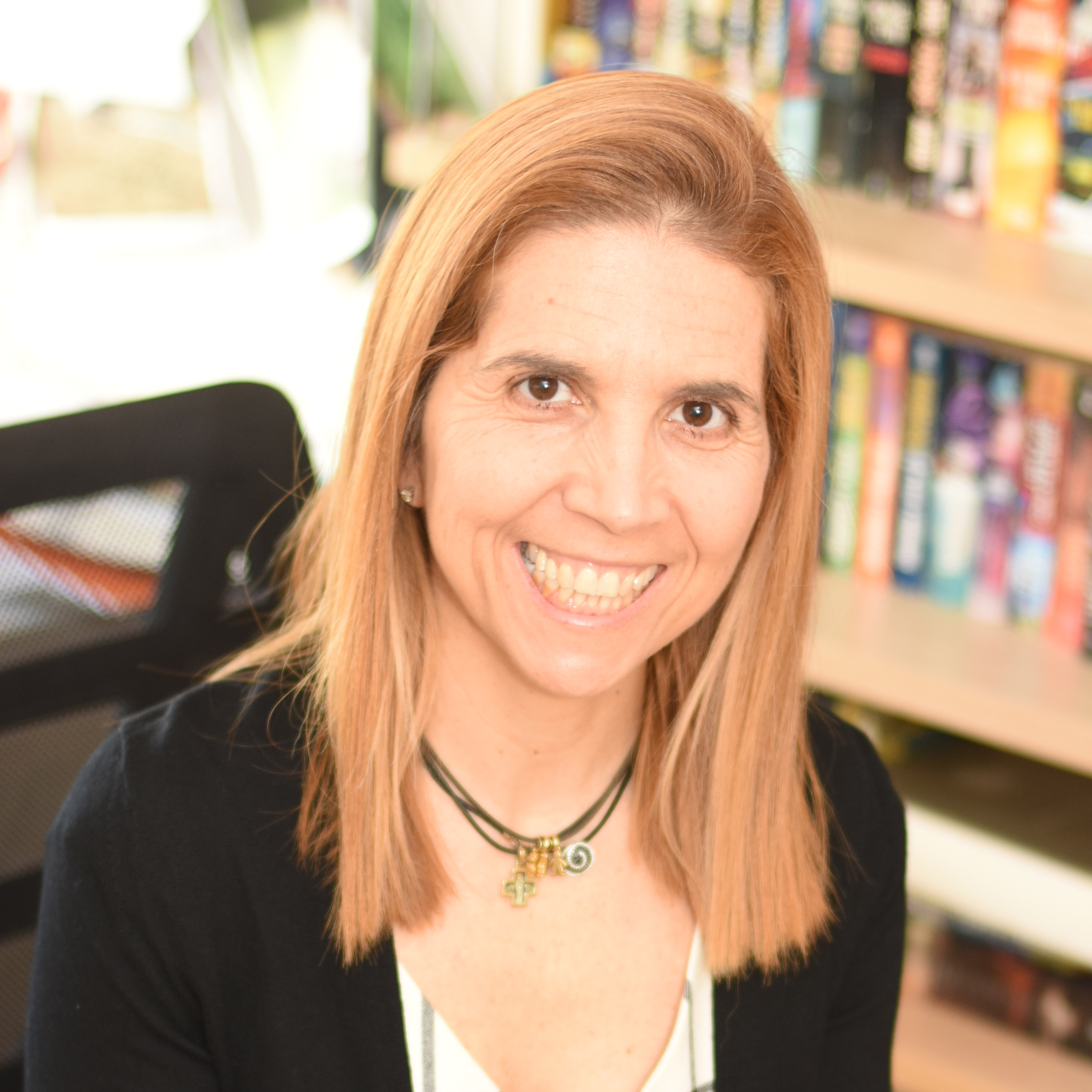 Picture of computer scientist Nuria Oliver